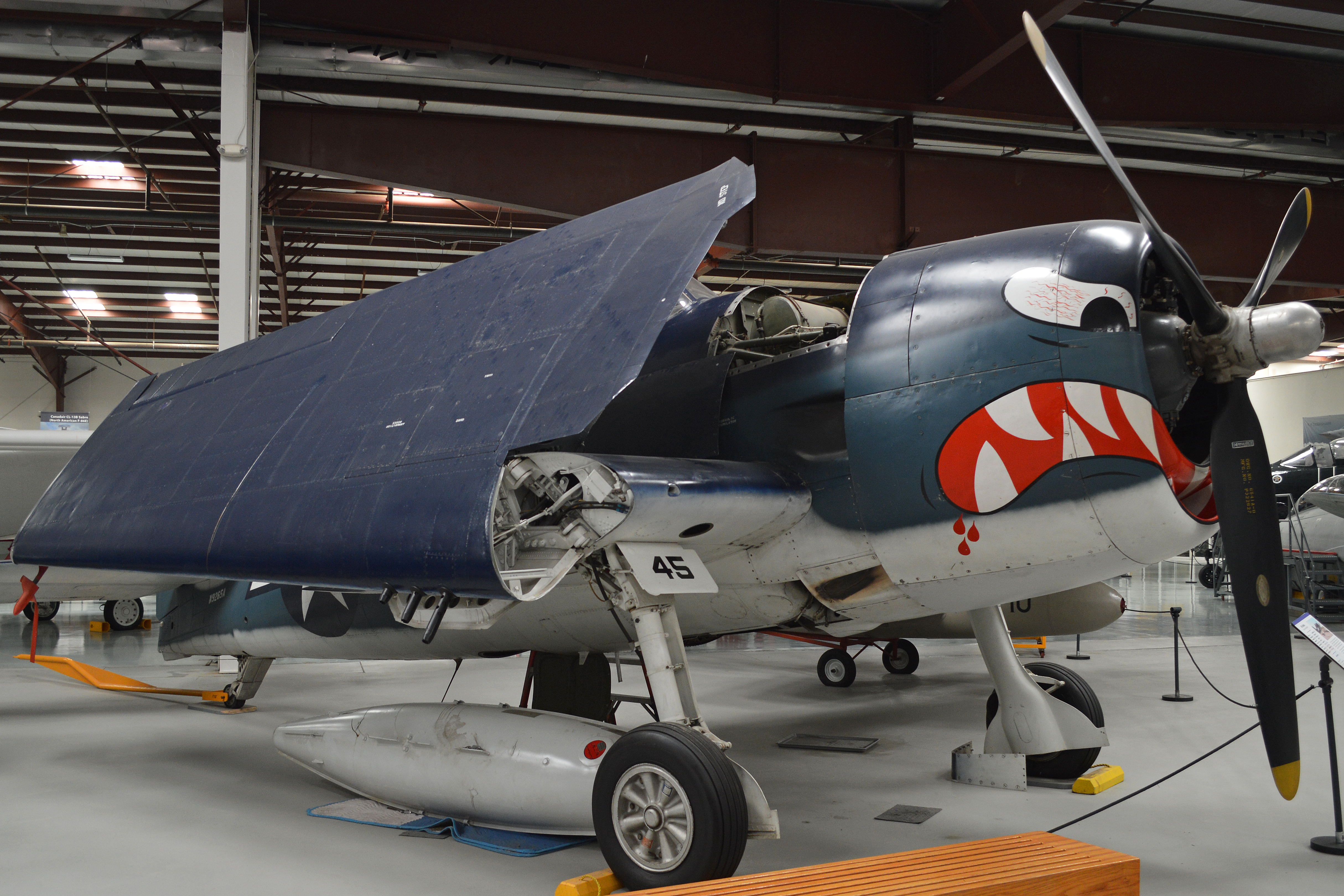 c/n A-9790. Built 1945. On display in Hangar 3 at the Yanks Air Museum, Chino, California, USA. 28-2-2016. This detailed service history comes from the excellent Yanks Air Museum website:- “Delivered: March 2, 1945 VF-14 - USS Casablanca, 2 tours VF-80 - NAS Pensacola, FL NART Squantum Stricken: August 31, 1949”